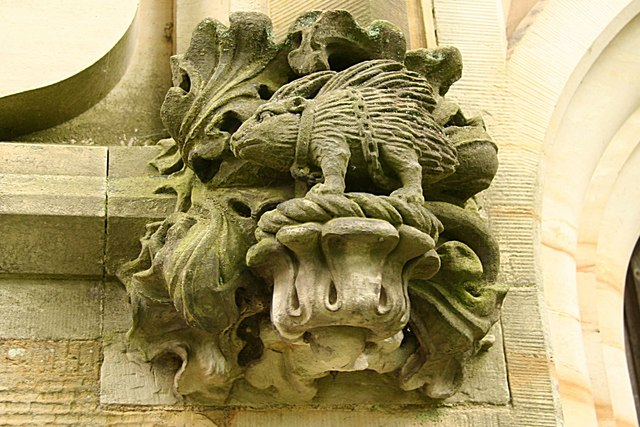 Sidney Porcupine, near to Penshurst, Kent, Great Britain. Heraldic crest of the Sidney family on St.John the Baptist's church